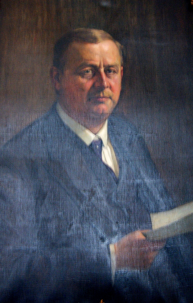 Franz Stumpf, head of the Provincial Government and the authority in charge of indirect federal administration of Tyrol.